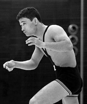 Tsutomu Hanahara (right), 1964 Olympics